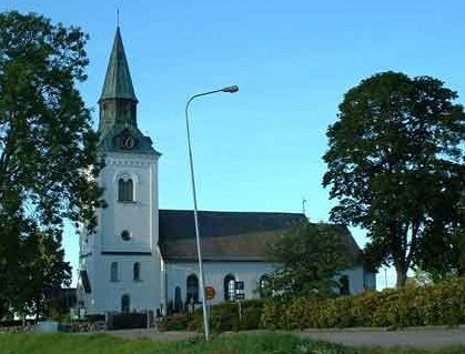 Frinnarys church